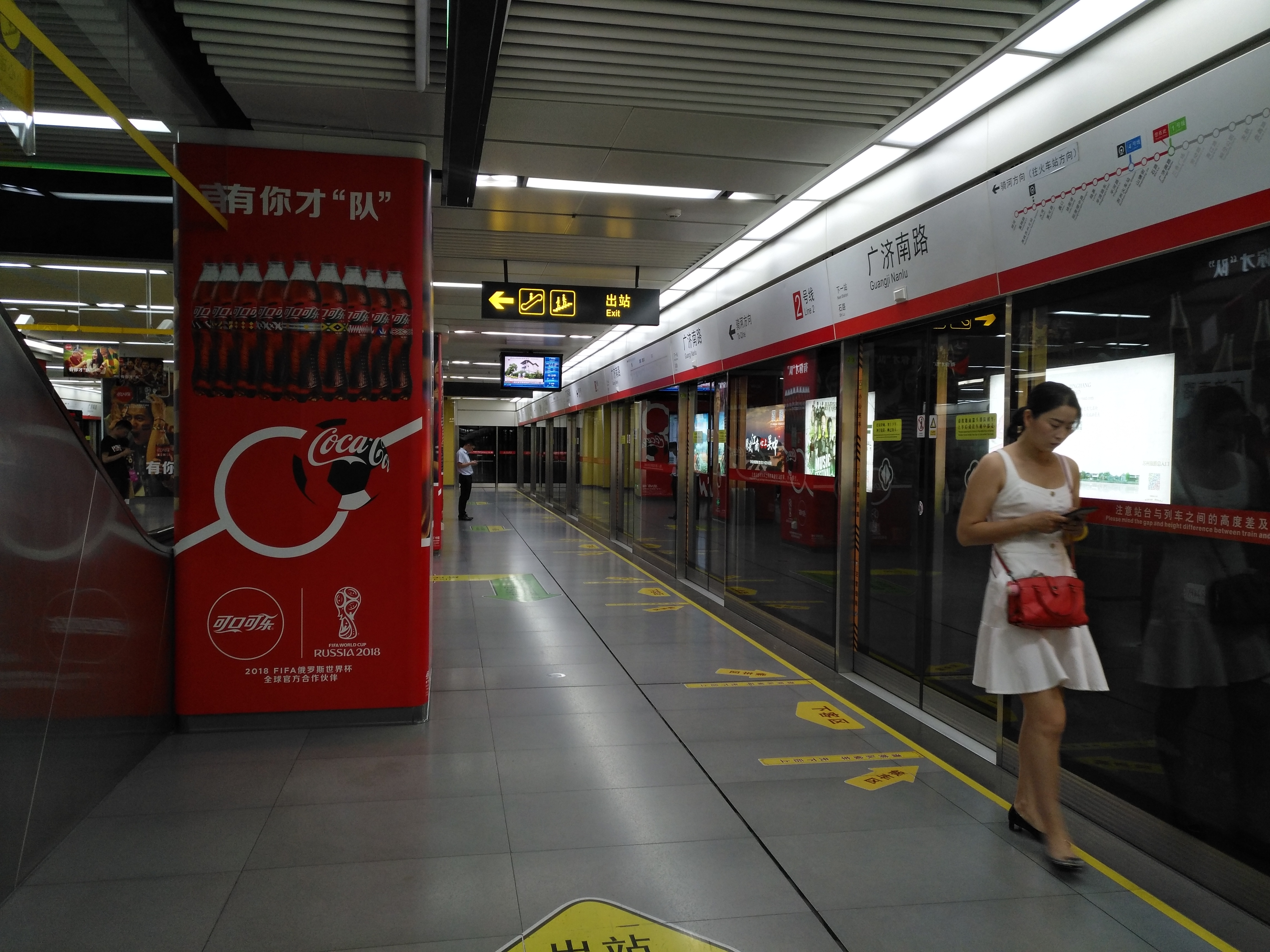 Platform of Guangji Nanlu Station of Line 2, Suzhou Rail Transit (towards Qihe) 中文（中国大陆）: 苏州轨道交通广济南路站2号线站台（骑河方向）